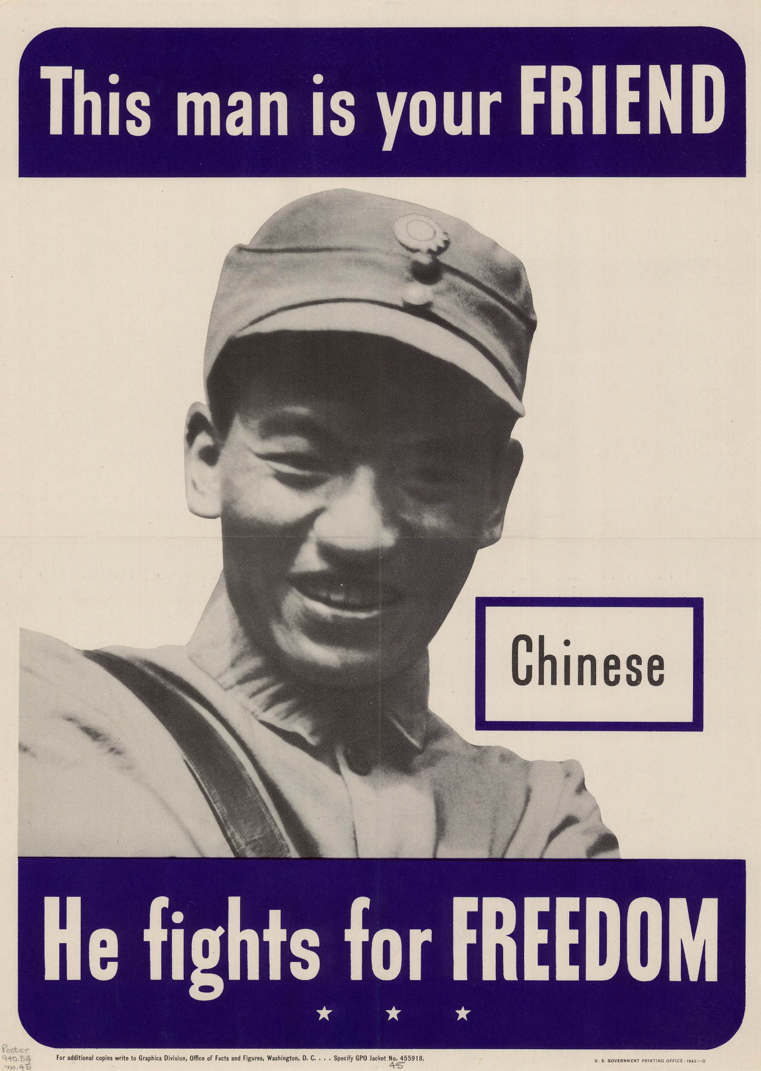 An American World War II propaganda poster. The poster reads This man is your FRIEND Chinese He fights for FREEDOM